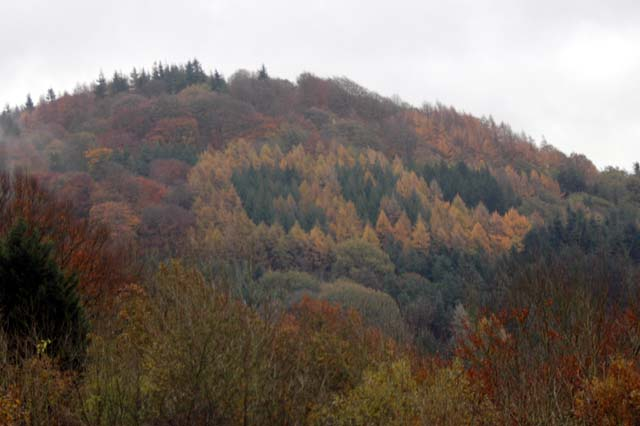 Coronation Plantation. This stand of trees was planted with two different species to make the letters 'ER' around the time of the Queen's coronation in 1953. Easily visible from the A40 between Monmouth and Ross in winter; in summer the two species merge together making it harder to discern.